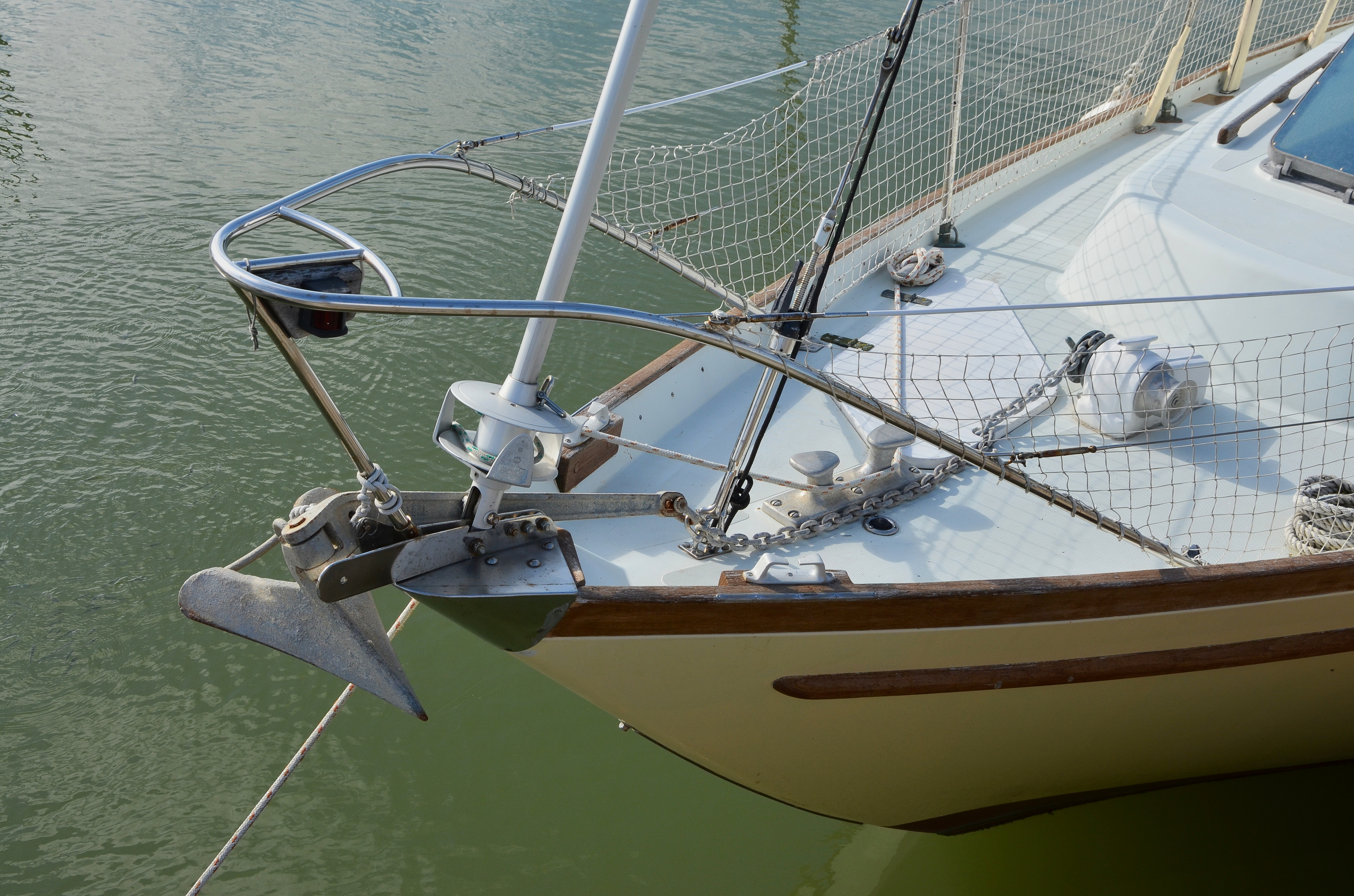 Prow of a pleasure boat, with anchor and chain, channel of La Cayenne, Marennes, Charente-Maritime, France.